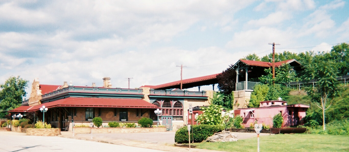 Former Pennsylvania Railroad station in Latrobe, Pennsylvania